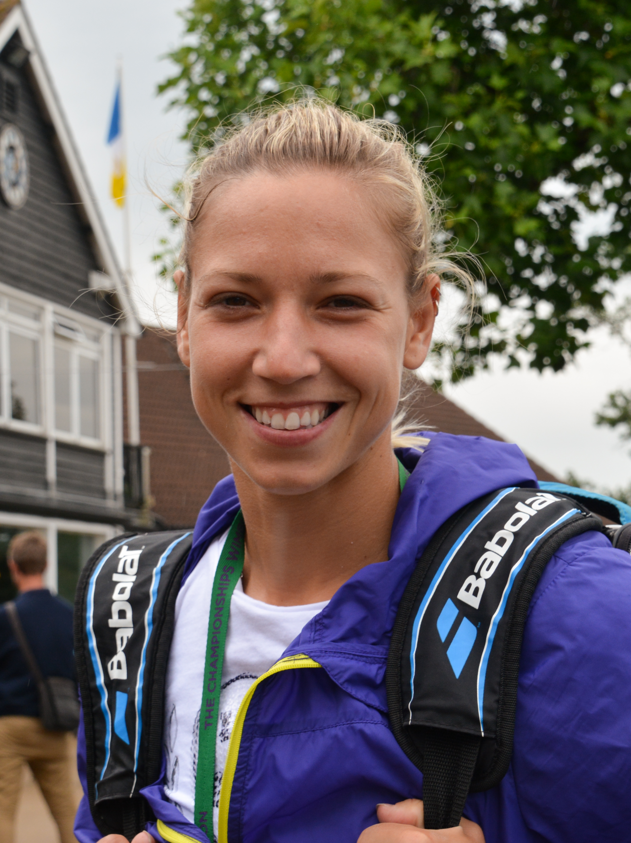 Tereza_Mrdeža, Day 1 of Wimbledon qualifying 2015.